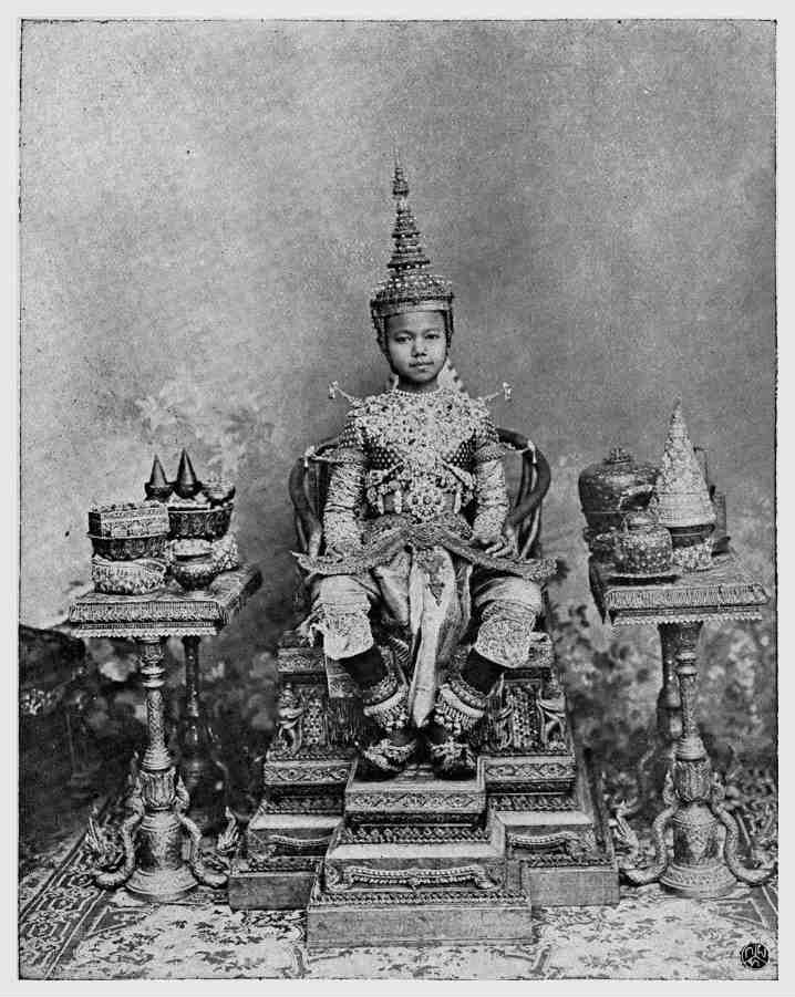 Valaya Alongkorn the princess of Phetchaburi